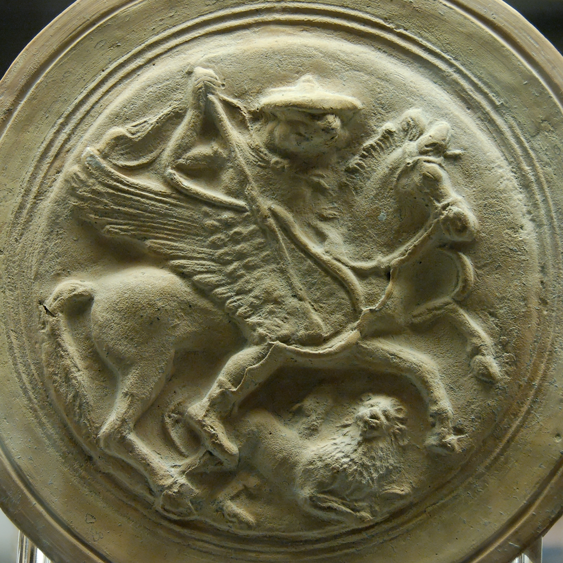 Bellerophon and the Chimaera. Terracotta flask with moulded medallions, made in Apulia, ca. 300–250 BC.